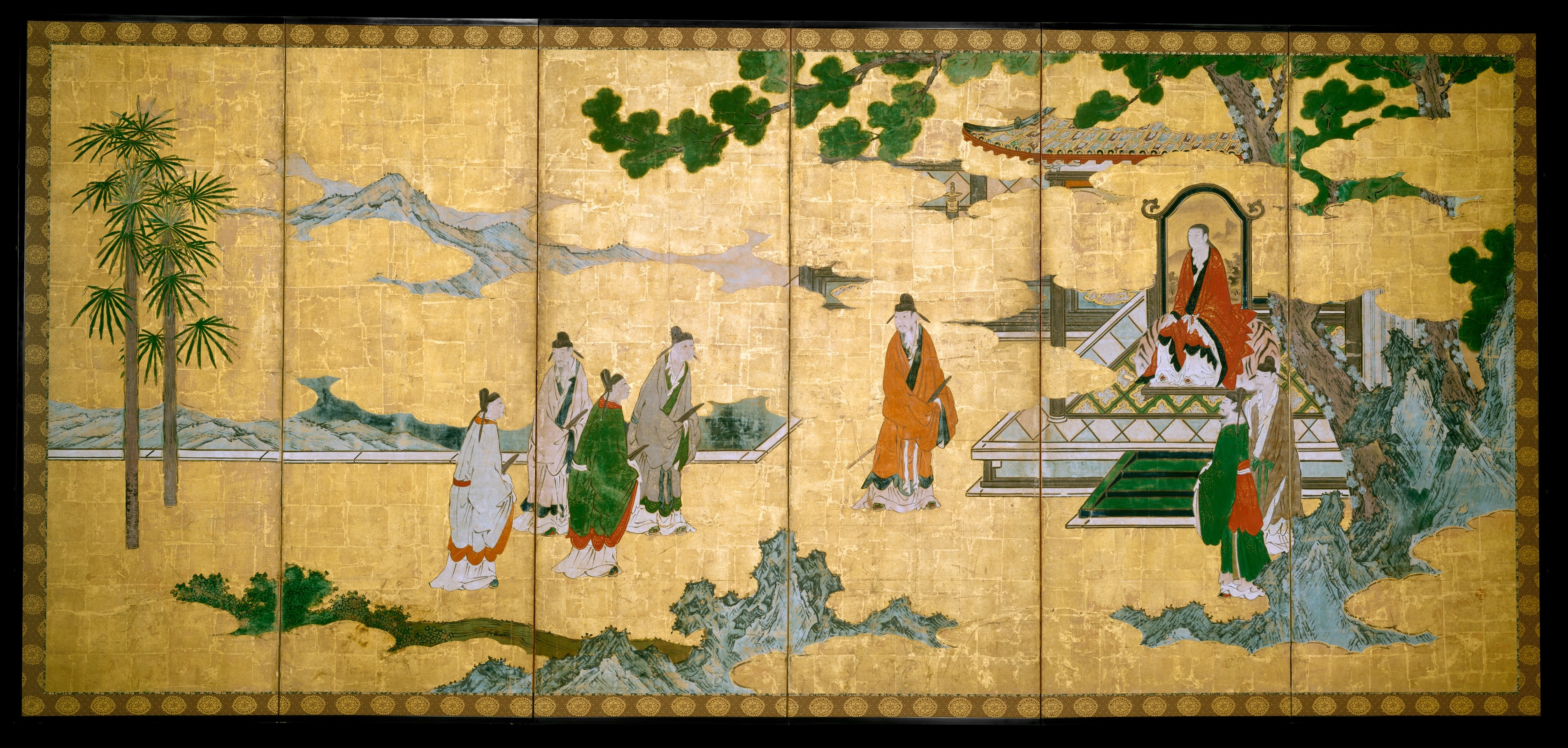 Japan; Screen; Screens